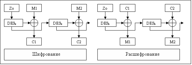 Output Feed Back